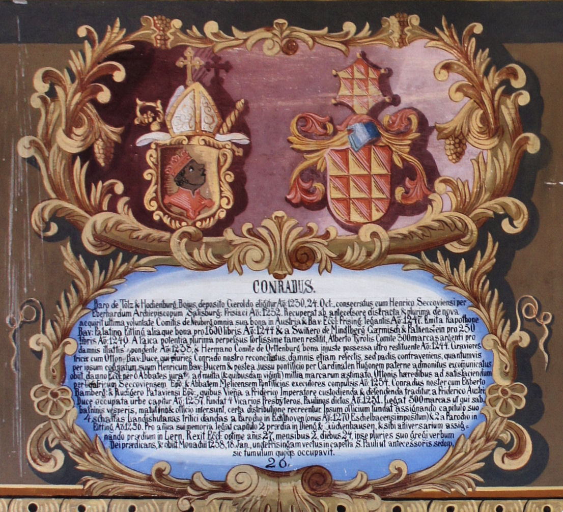 Wappentafel von Konrad I. von Tölz und Hohenburg, Bischof von Freising, im Fürstengang zwischen Fürstbischöflicher Residenz und Freisinger Dom. Links das geistliche, rechts das persönliche Wappen, darunter ein lateinischer Text mit kurzer Biographie.